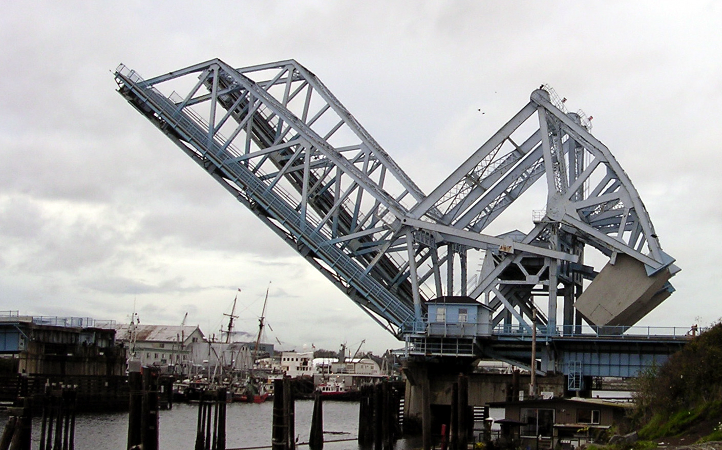 The Johnson Street Bridge while in the process of opening.